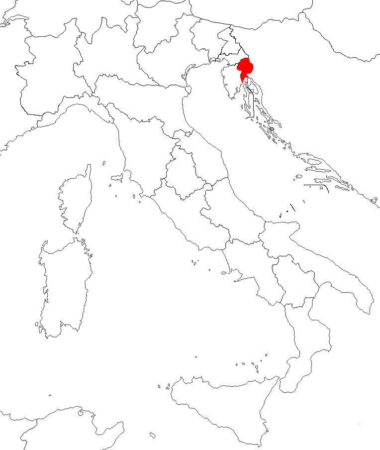 Map of Italian province of fiume.